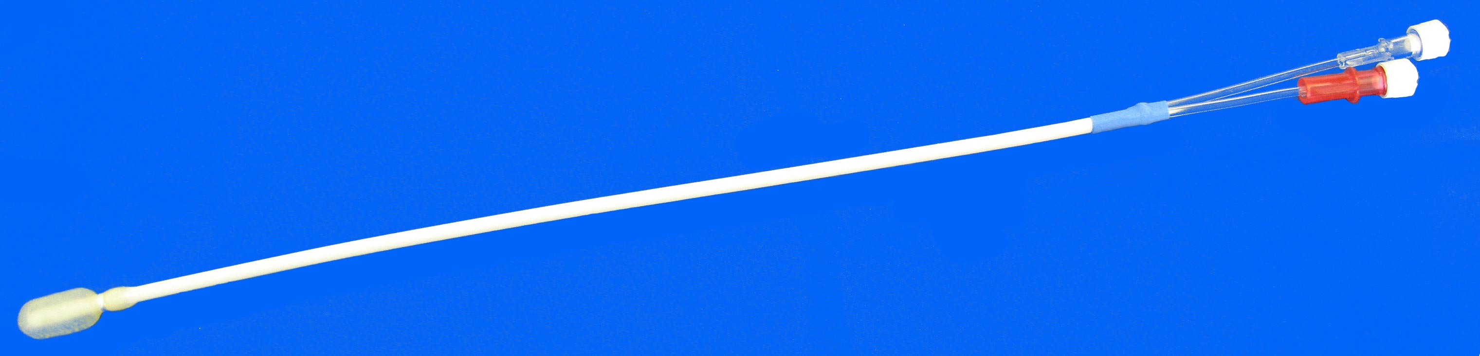 Balloon catheter for anorectal manometry